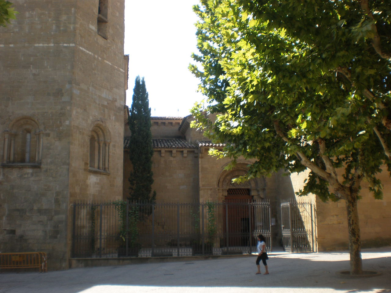 St Peter the Old church, Huesca